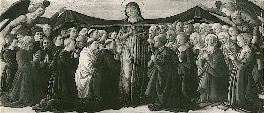 painting possibly destroyed in the Friedrichshain flak tower fire in Berlin, at the end of the Second World War (May 1945). The painting belonged to the collections of the Kaiser-Friedrich-Museum, now the Bode-Museum of Berlin.